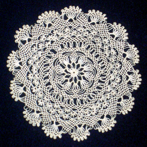 This work has been released into the public domain by its author, Pacaro. This applies worldwide. In some countries this may not be legally possible; if so: Pacaro grants anyone the right to use this work for any purpose, without any conditions, unless such conditions are required by law. This is a photograph that I took of a piece of Armenian needlelace that I own.